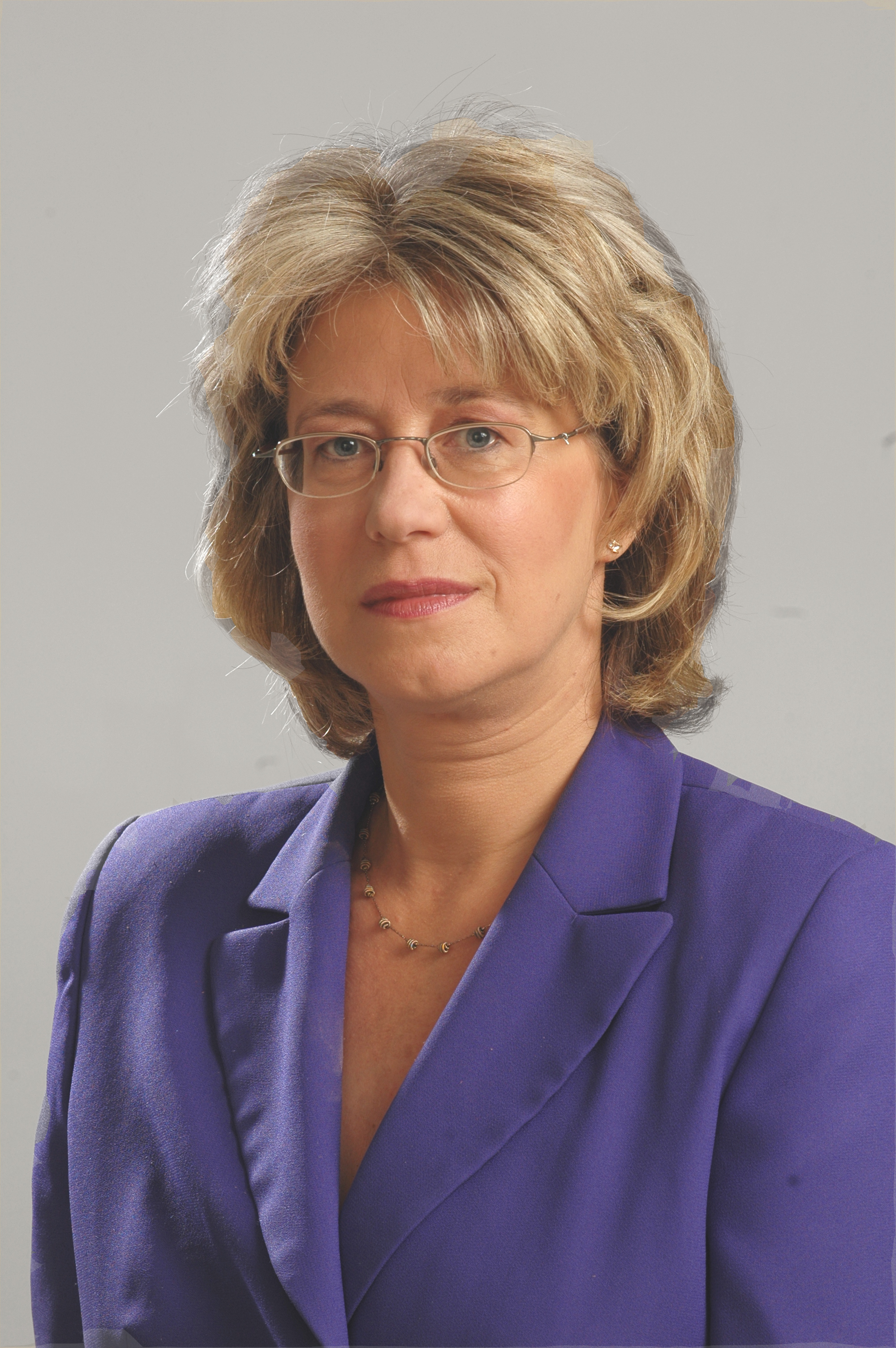 Deputy of the 9th Saeima Ina Druviete